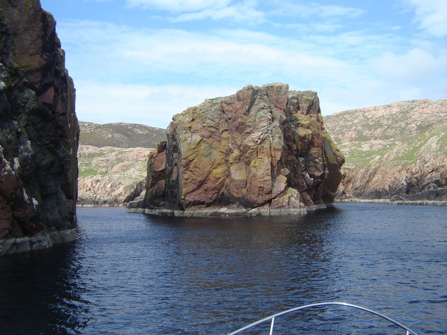 Murbie Stacks, Muckle Roe More of the stunning cliff scenery at the south coast of Muckle Roe.